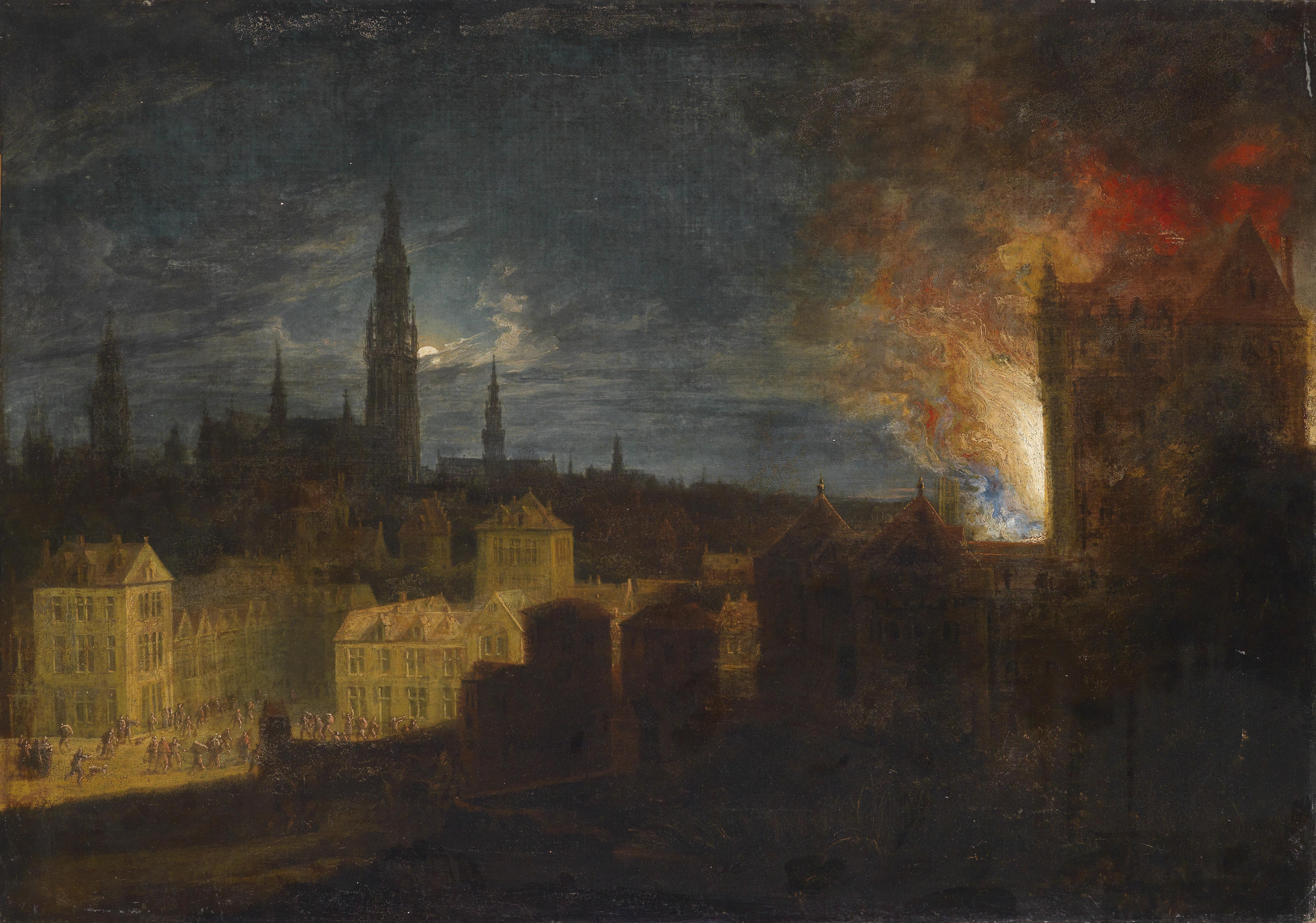 The fire of the Antwerp Town Hall on 4 November 1576title QS:P1476,en:"The fire of the Antwerp Town Hall on 4 November 1576" label QS:Len,"The fire of the Antwerp Town Hall on 4 November 1576"